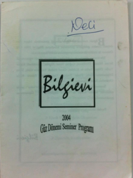 The First Program's Booklet